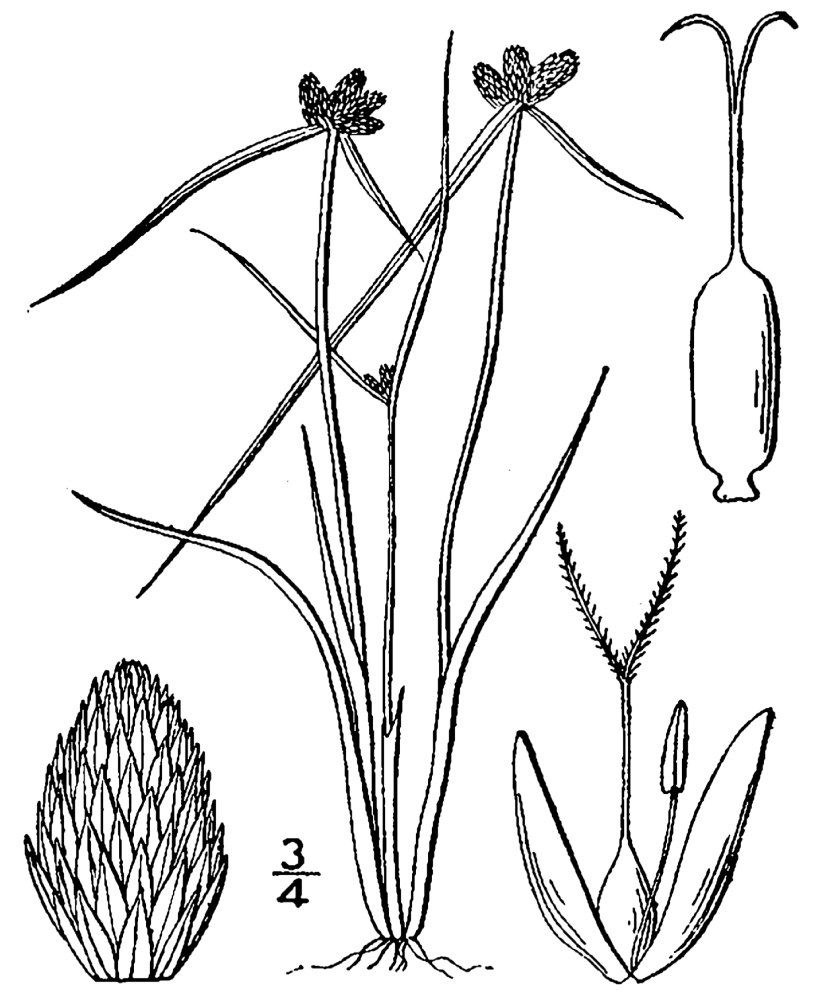 Lipocarpha maculata (Michx.) Torr.